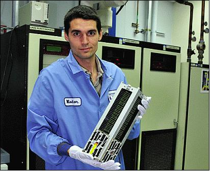 Zachary R. Manchester and KickSat